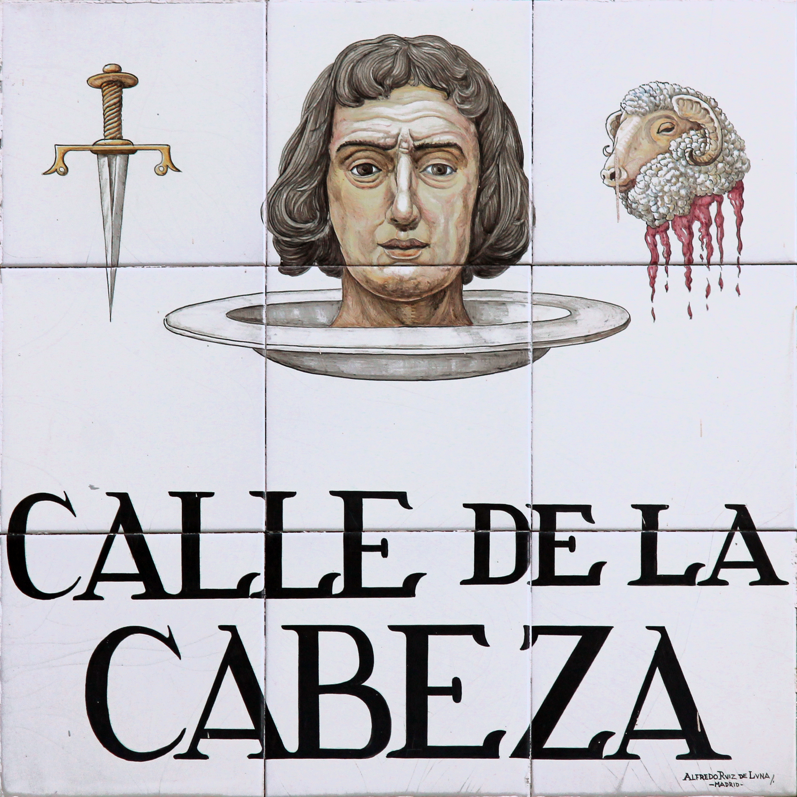 Sign of Calle de la Cabeza (street) in Madrid (Spain).